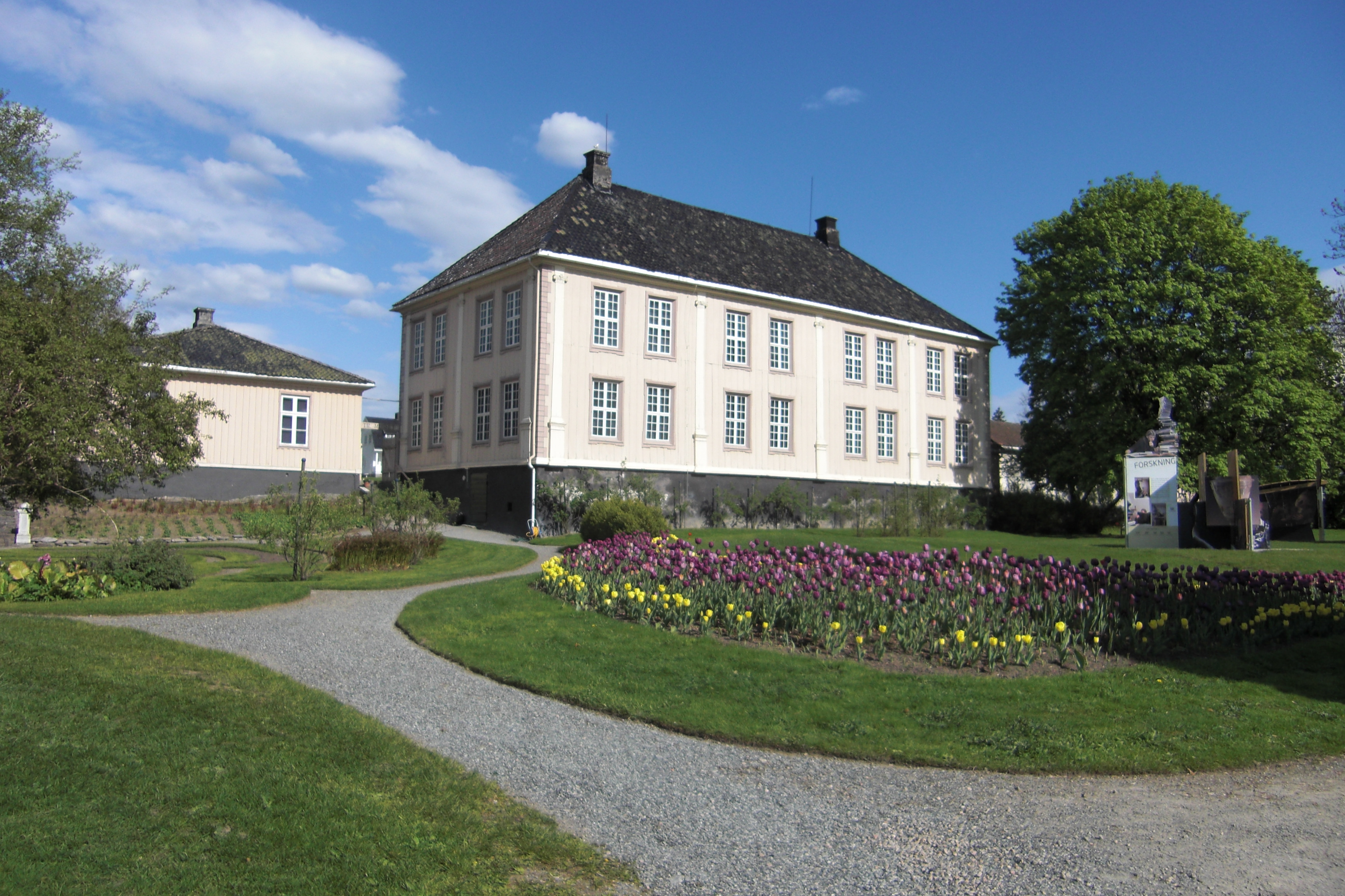 Brekke manor house in Skien, Telemark county, Norway